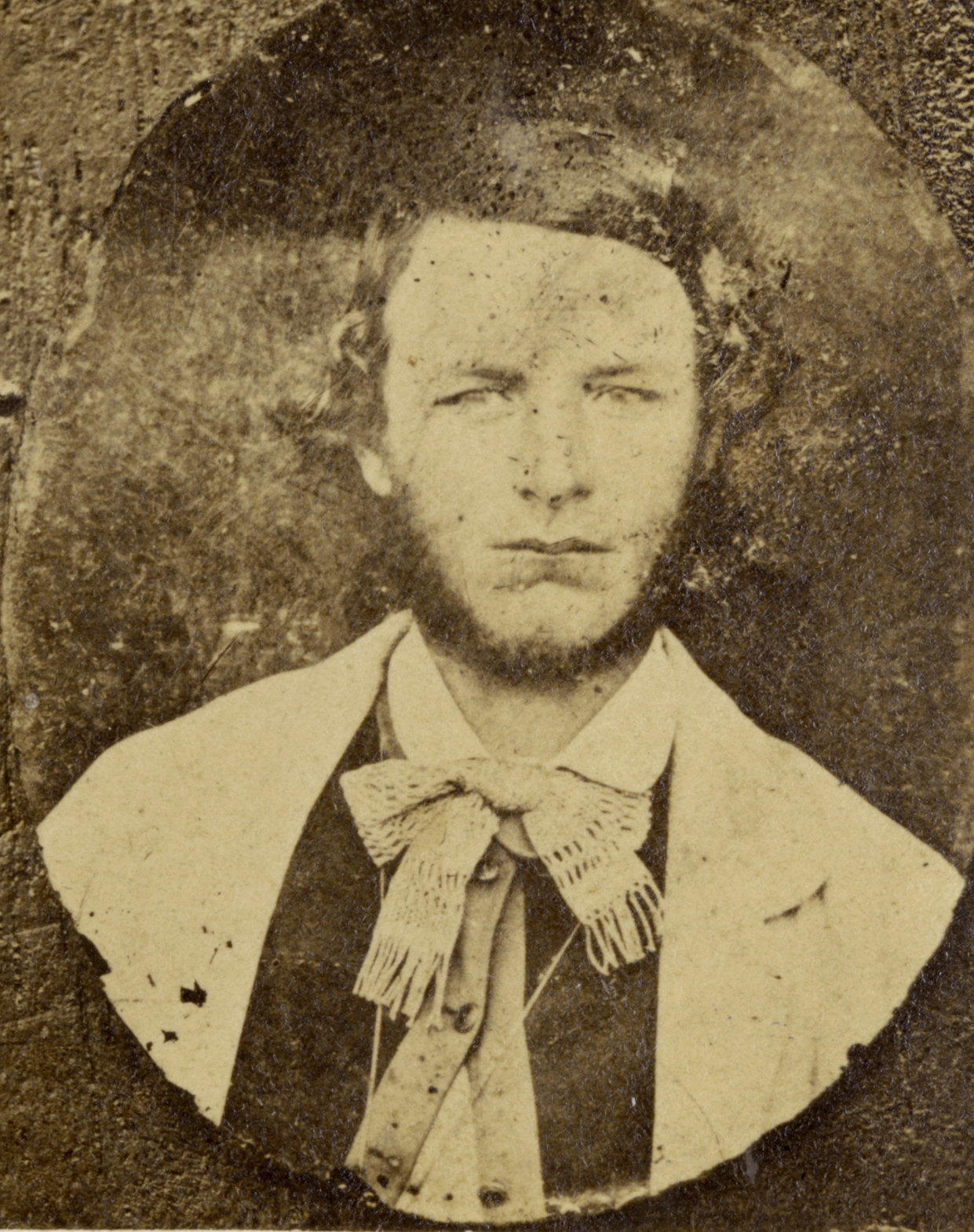 Portrait of bushranger Ben Hall, by Freeman Brothers Studio, 11863, from original album print arte de visite, State Library of New South Wales P1 / 693